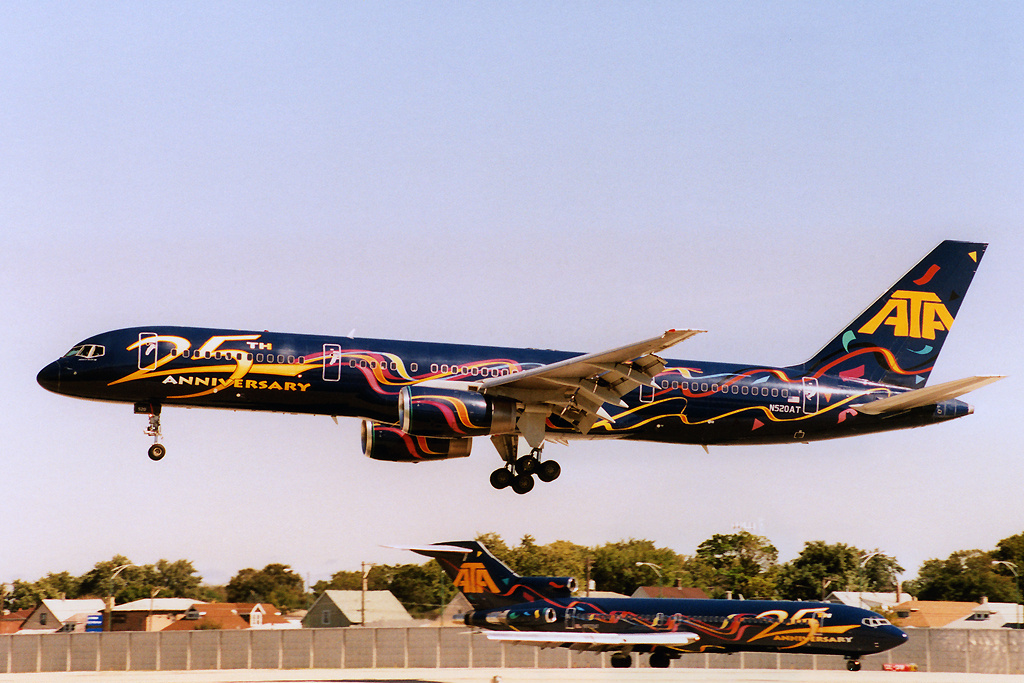 ATA Airlines 25th Anniversary Scheme. 757-200 (N520AT) is landing at Chicago-Midway International Airport, and in the background is 727-200 (N772AT) taxiing for takeoff.